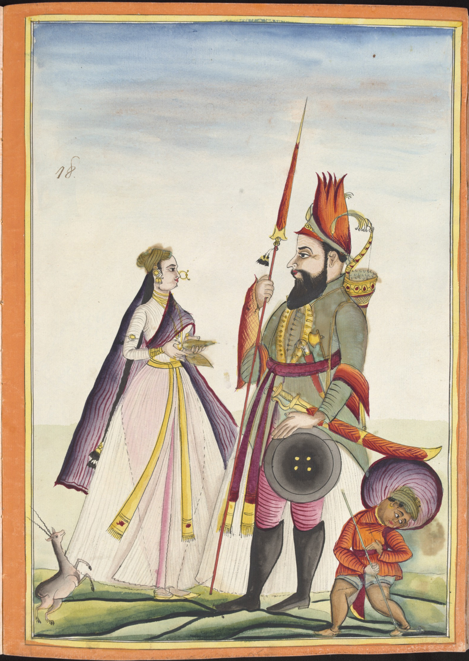 This is a page from the Boileau Album. The album contains 42 Company paintings probably made by an artist from Thanjavur (Tanjore) living in Madras. Painting in Madras at this early period appears to have been linked mainly to individual patronage. John Peter Boileau commissioned this album. Boileau, whose ancestors were French, served as a member of the Madras Civil Service from 1765 to 1785. He probably had the album made to take back home to England when he retired.